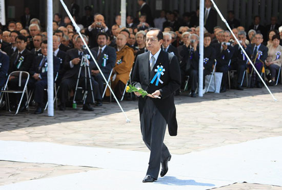 Yasuo Fukuda, Prime Minister, attended the Ceremony of Reverence at Chidorigafuchi National Cemetery in Chiyoda Ward, Tōkyō Metropolis on May 26, 2008.